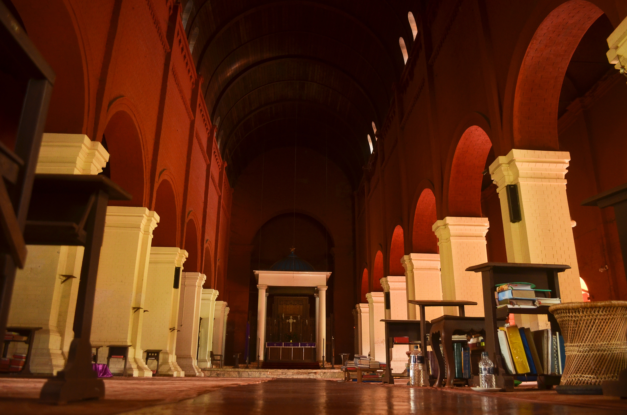 Inside of the 110 years old Oxford Mission Church situated at Barishal.